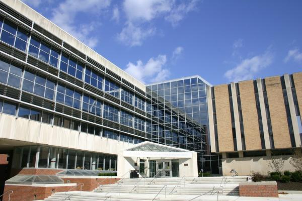 The Fairchild-Martindale Library at Lehigh University